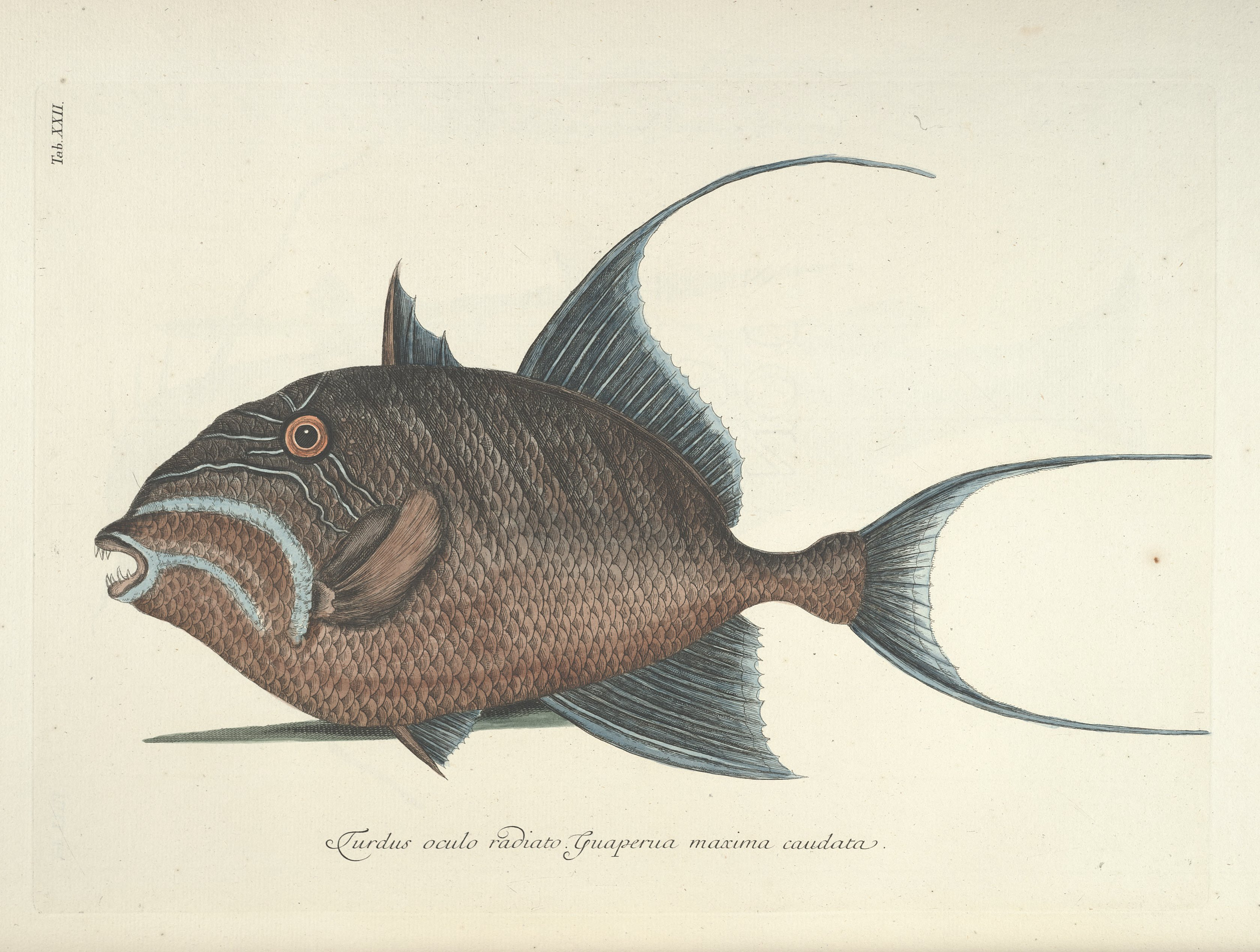 Mark Catesby (1743), Natural History of Carolina etc., vol 2, plate 22, with Turdus oculo radiato Guaperua maxima caudata, the Queen Triggerfish (Balistes vetula).